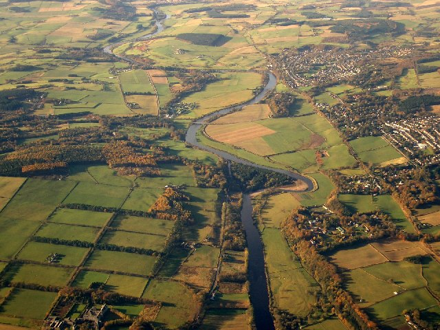 Aerial Photograph over Milltimber, SE Aberdeen Aerial picture over the River Dee around Milltimber. Taken from a KLM flight heading from Aberdeen to Schipol